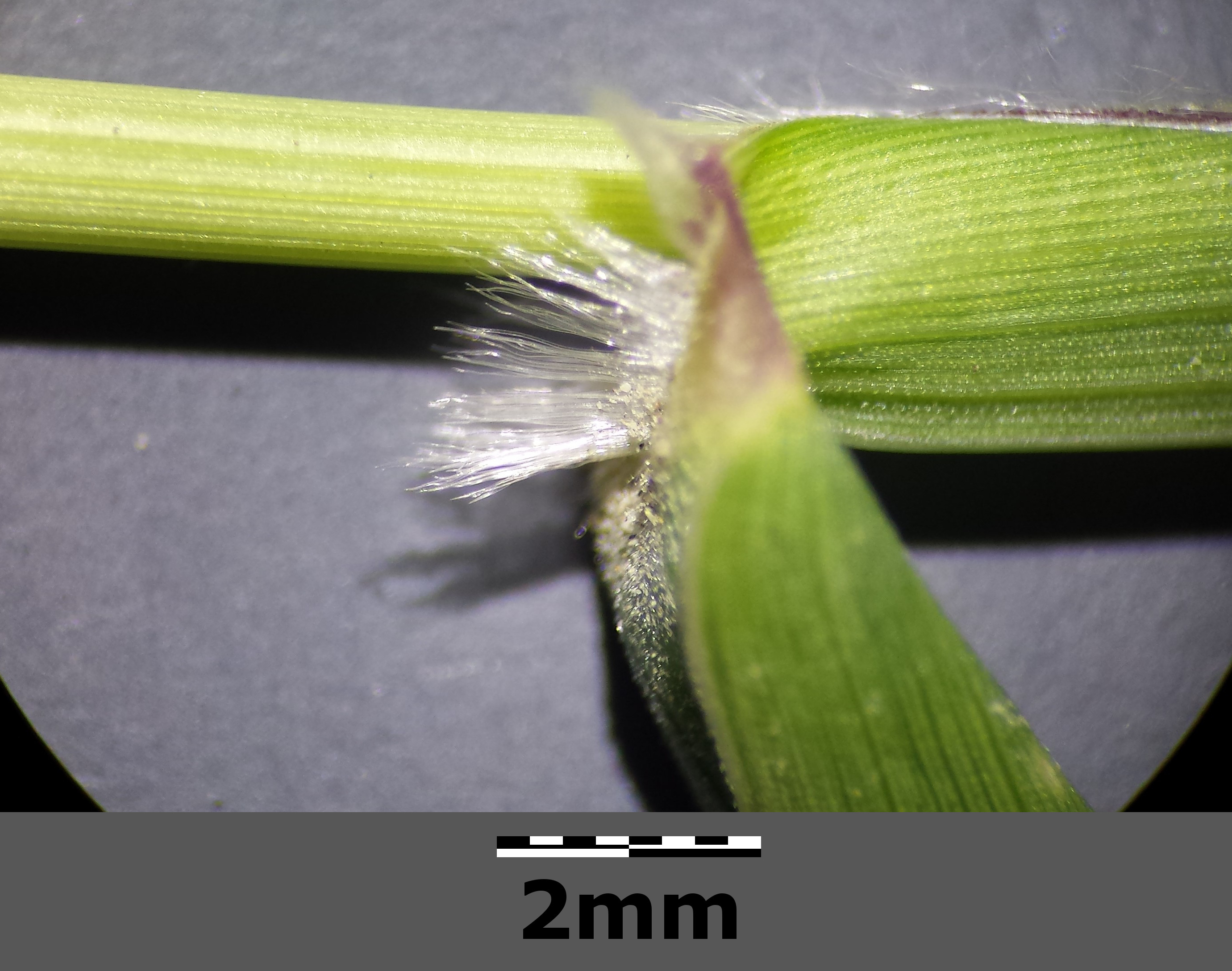 Leaf with lashes Taxonym: Setaria verticillata s. str., ss Fischer et al. EfÖLS 2008 ISBN 978-3-85474-187-9 Location: Floridsdorf rail station, Vienna-Floridsdorf - ca. 160 m a.s.l. Habitat: ballast